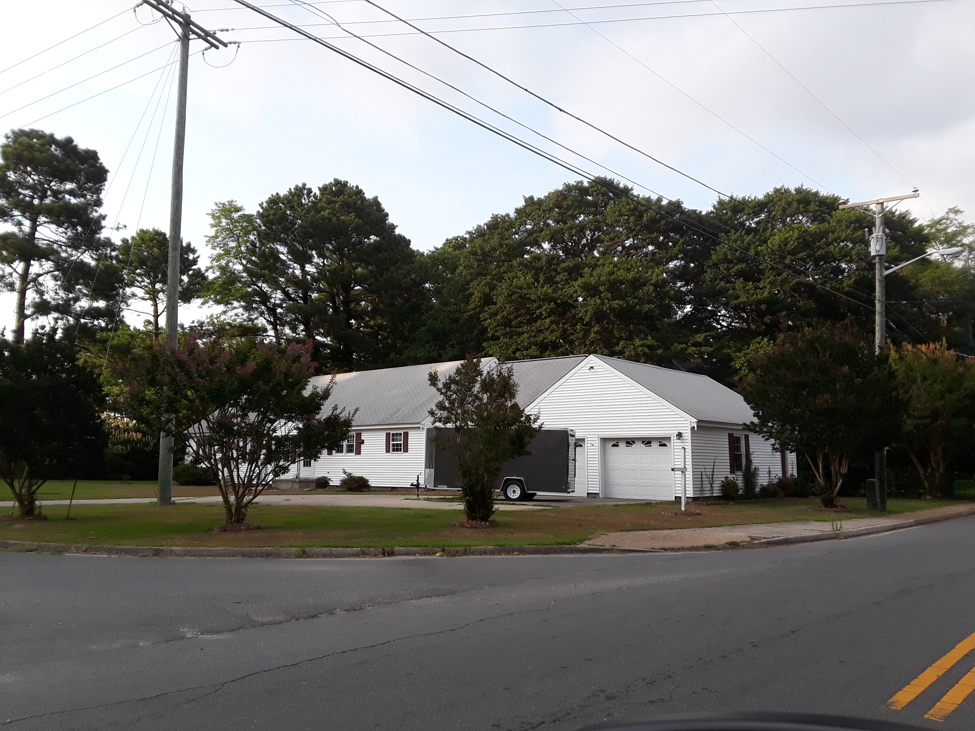 Taken on a visit to the Eastern Shore of Virginia, July 2018